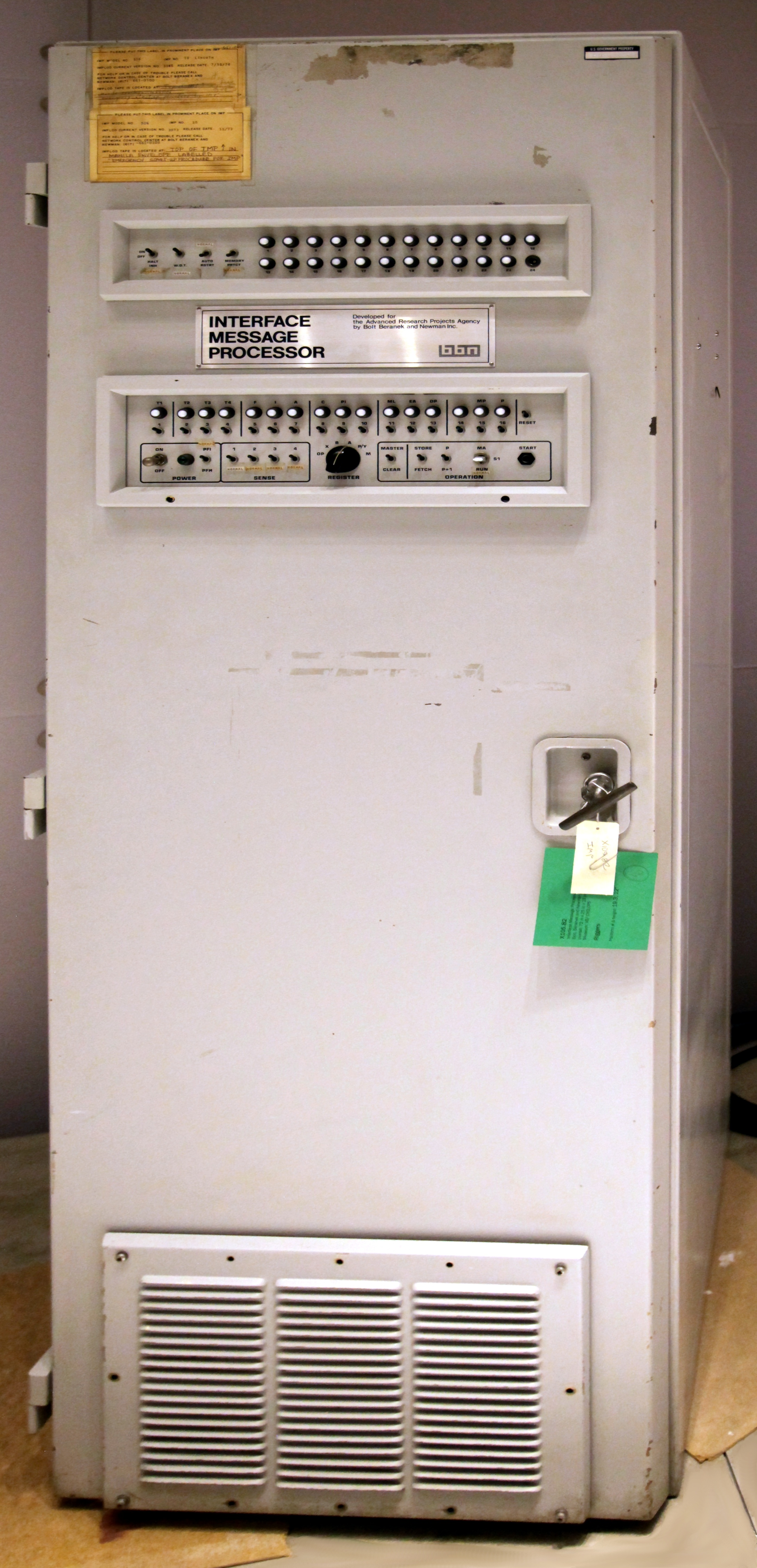 new version of File:ARPANET first router.jpg